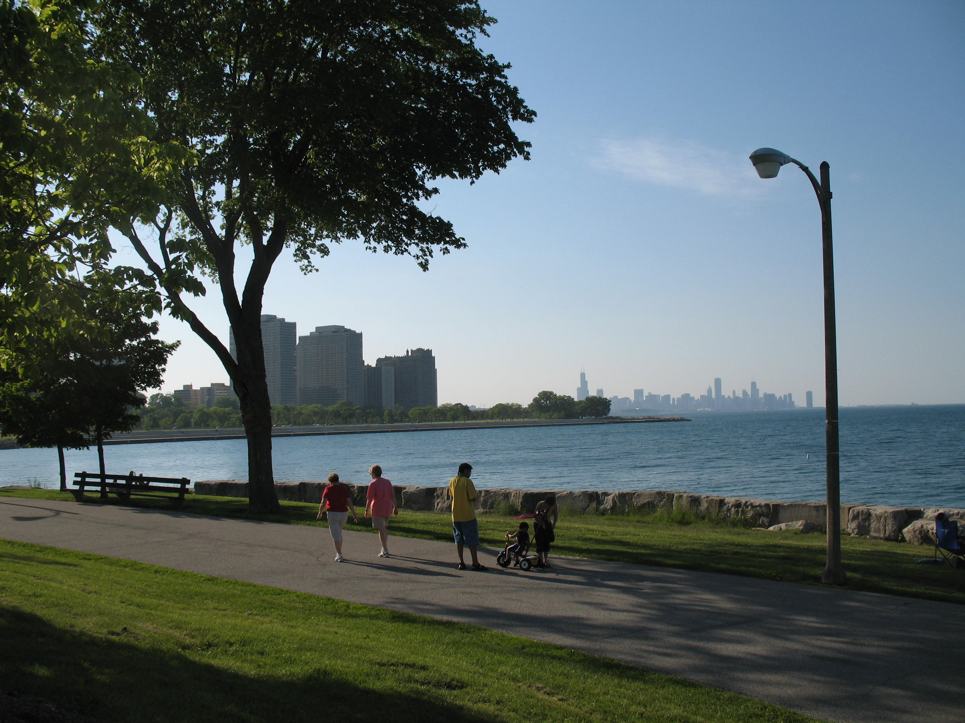 Chicago & Hyde Park skyline from Promontory Point